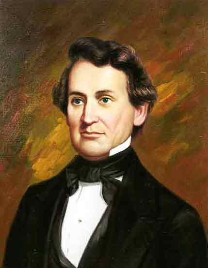 James Dwight Dana, American geologist, at young age